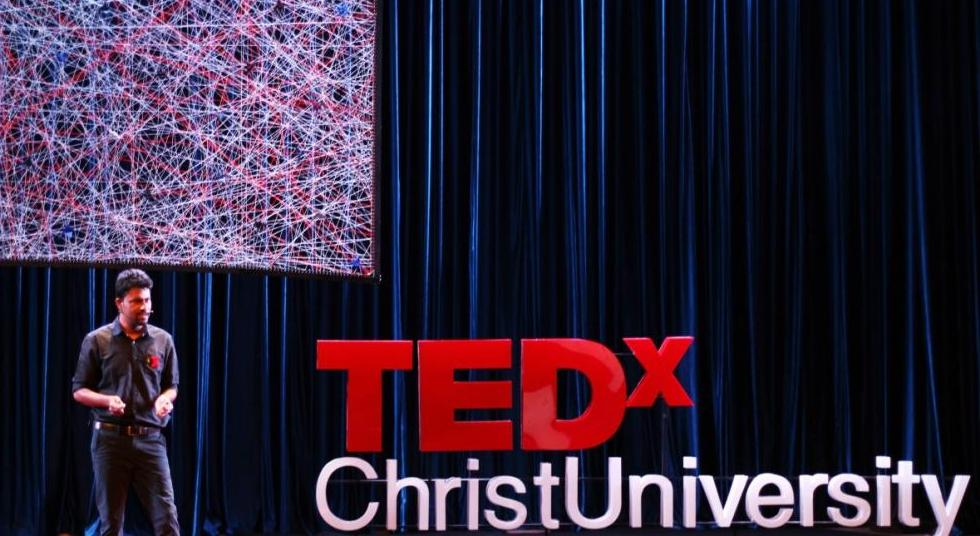 Benild Joseph speaking at TEDxChristUniversity, Bangalore